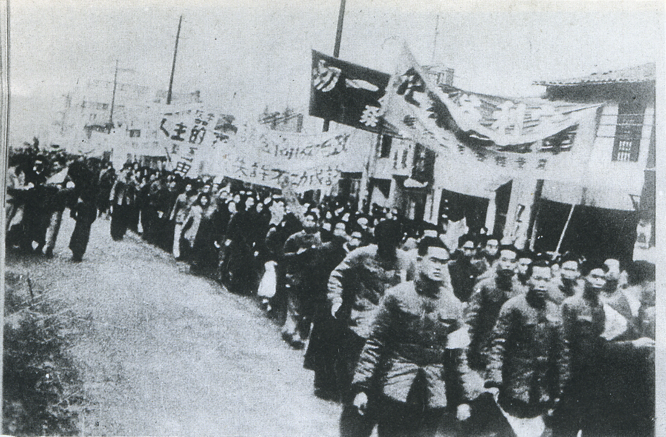 Shapingba Proceed